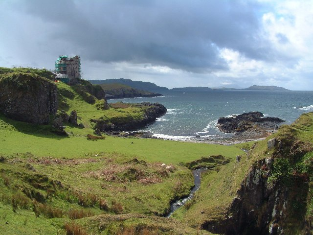 Looking towards Gylen Castle, Kerrera. The ruined fortress under repair in May 2003.